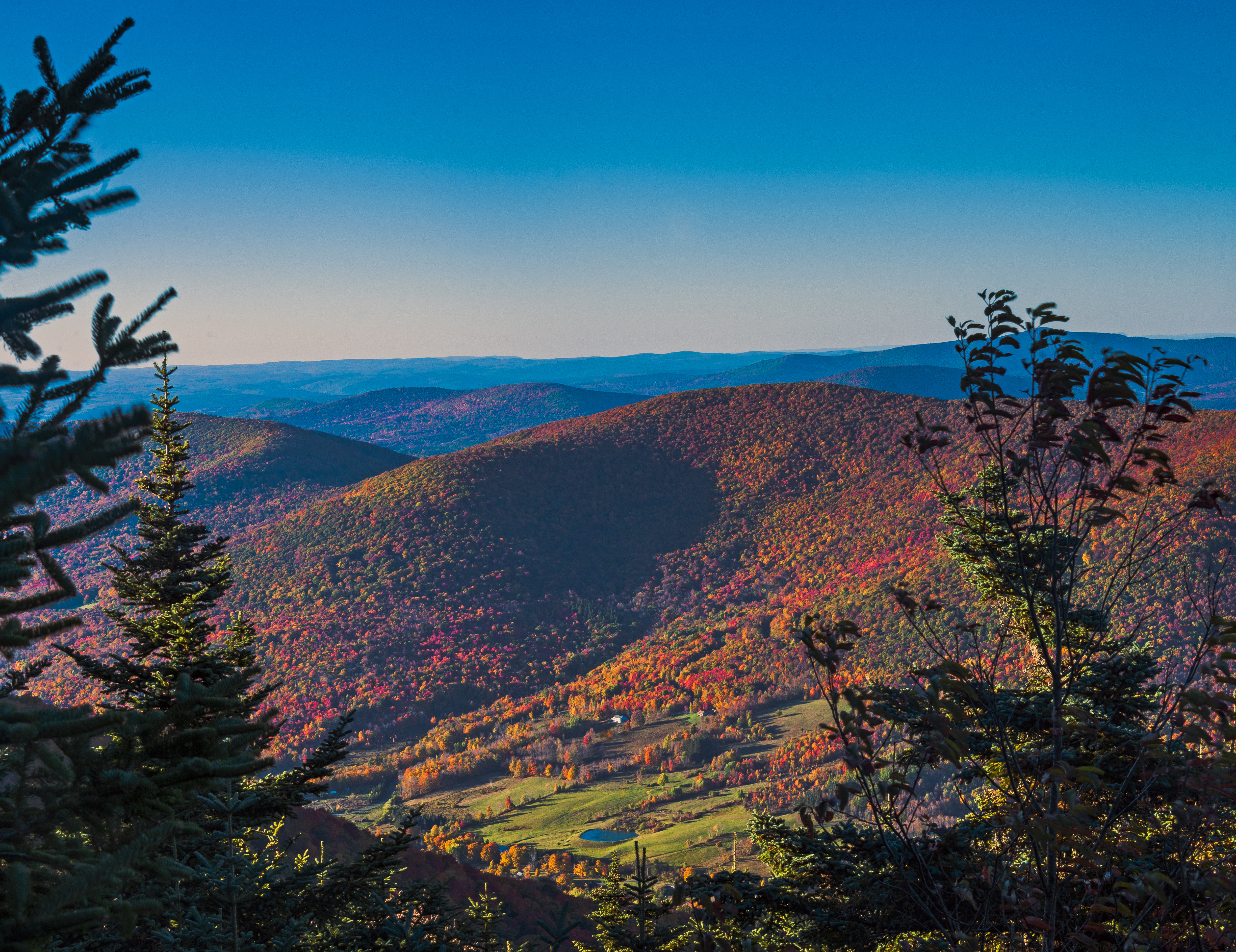 Evergreen Mountain, a minor peak of New York's Catskill Mountains, seen from Buck Ridge Lookout on nearby West Kill Mountain, during peak autumn color in raking sunlight